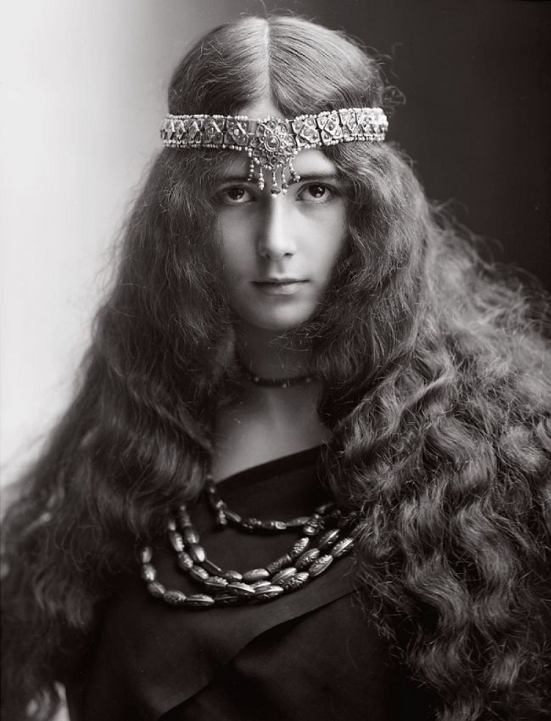 Cleo de Merode